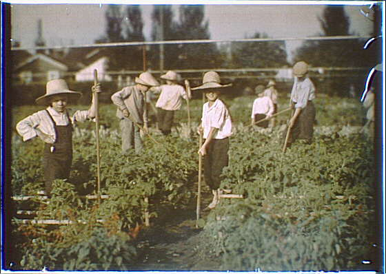 Title: Children in the gardens of the National Cash Register Company, Dayton, Ohio Abstract/medium: Genthe, Arnold, 1869-1942. Physical description: 1 photograph